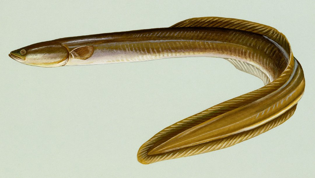 American eel